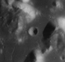 Ching-Te (crater), on the moon.